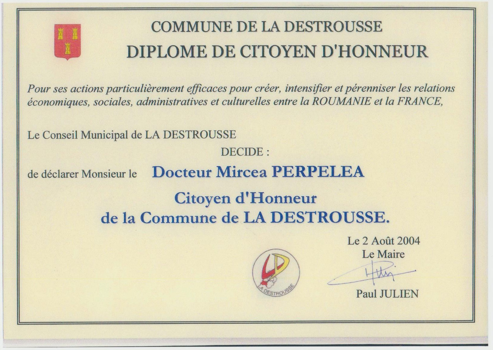 Citoyen D'honneur Detrousse